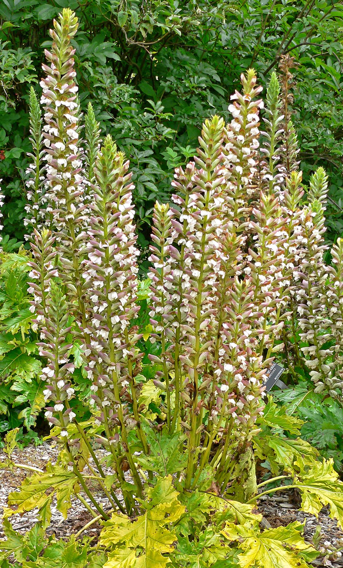 Photo of Acanthus mollis at the San Francisco Botanical Garden